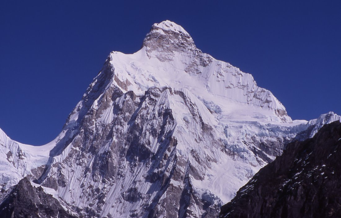 Jannu from south near the Selele pass